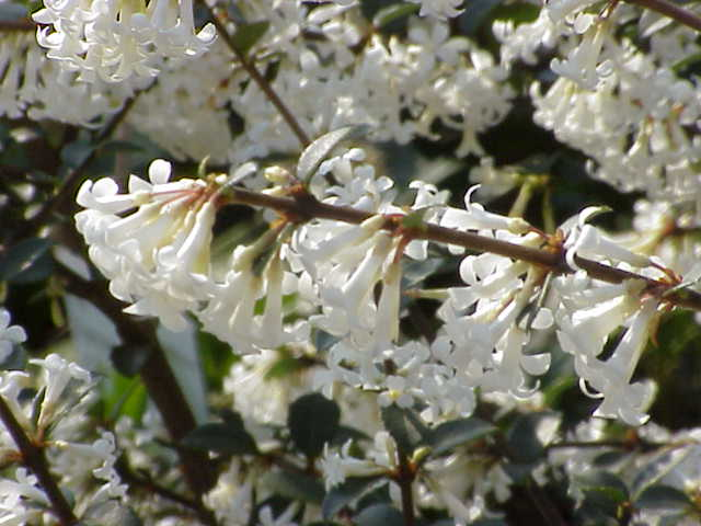 Species: Osmanthus delavayi Family: Oleaceae Image No. 2